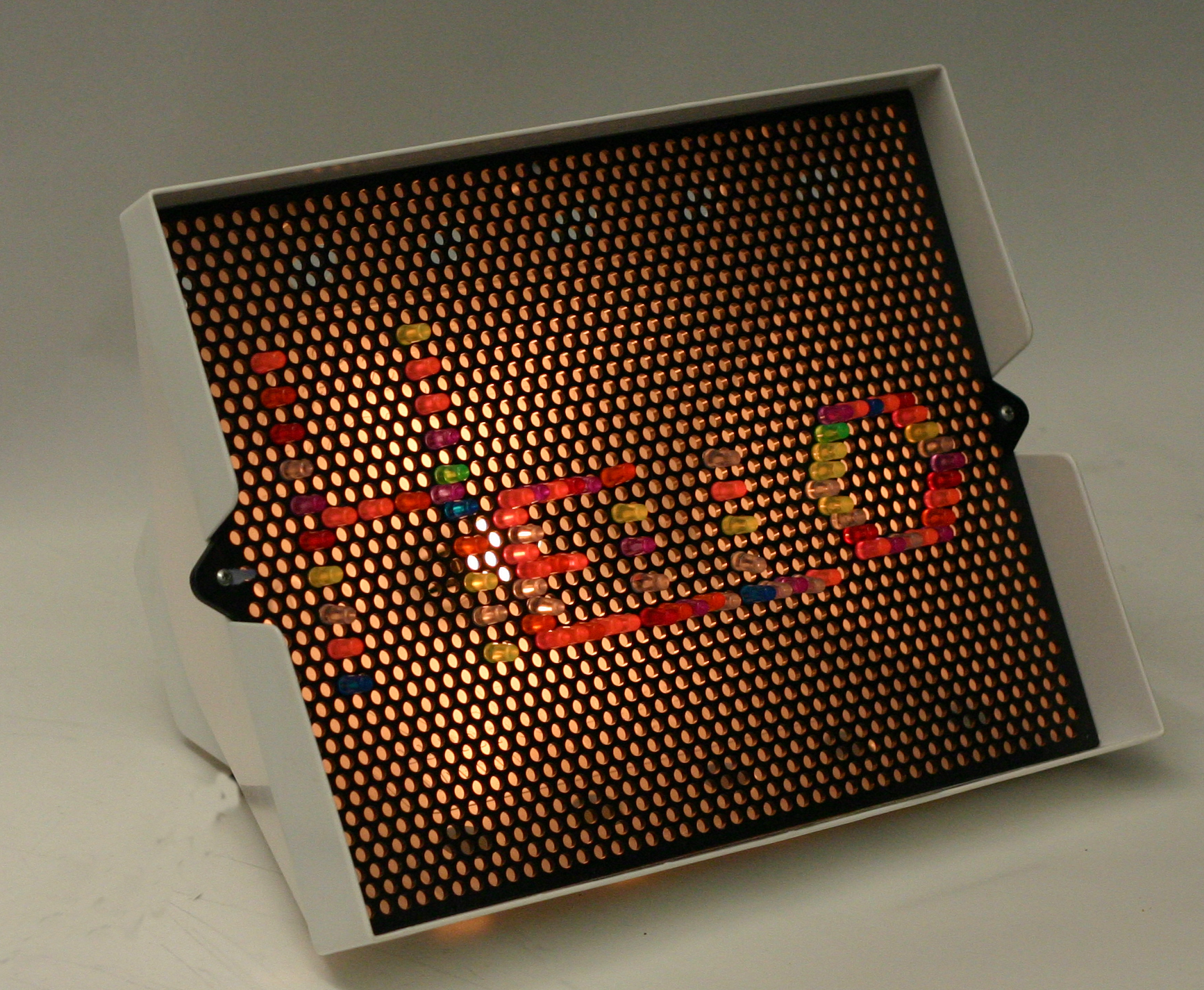 picture of a light brite Captioned As { }